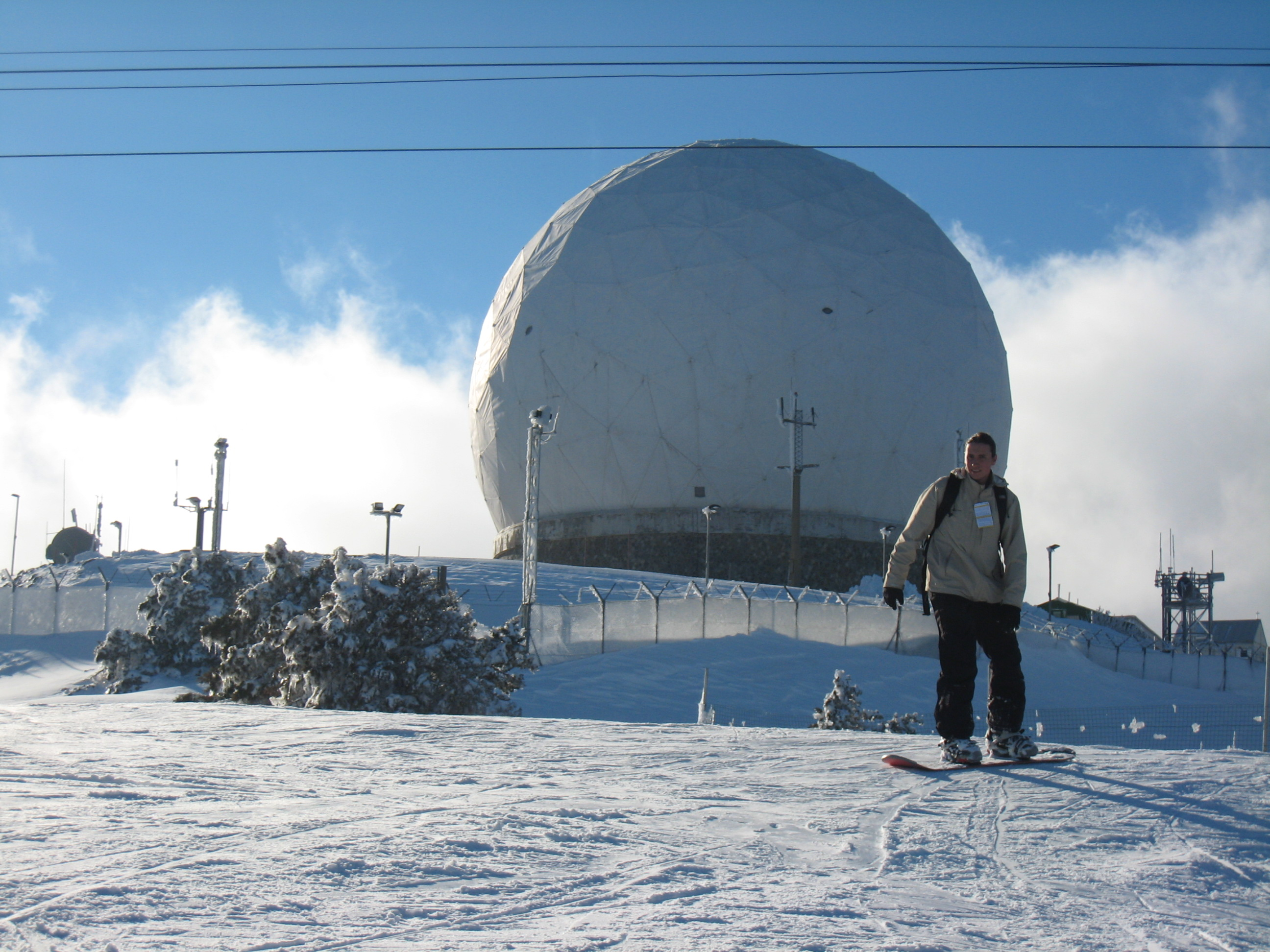 snowboarding in Troodos, Cyprus, with RAF Troodos in the background.